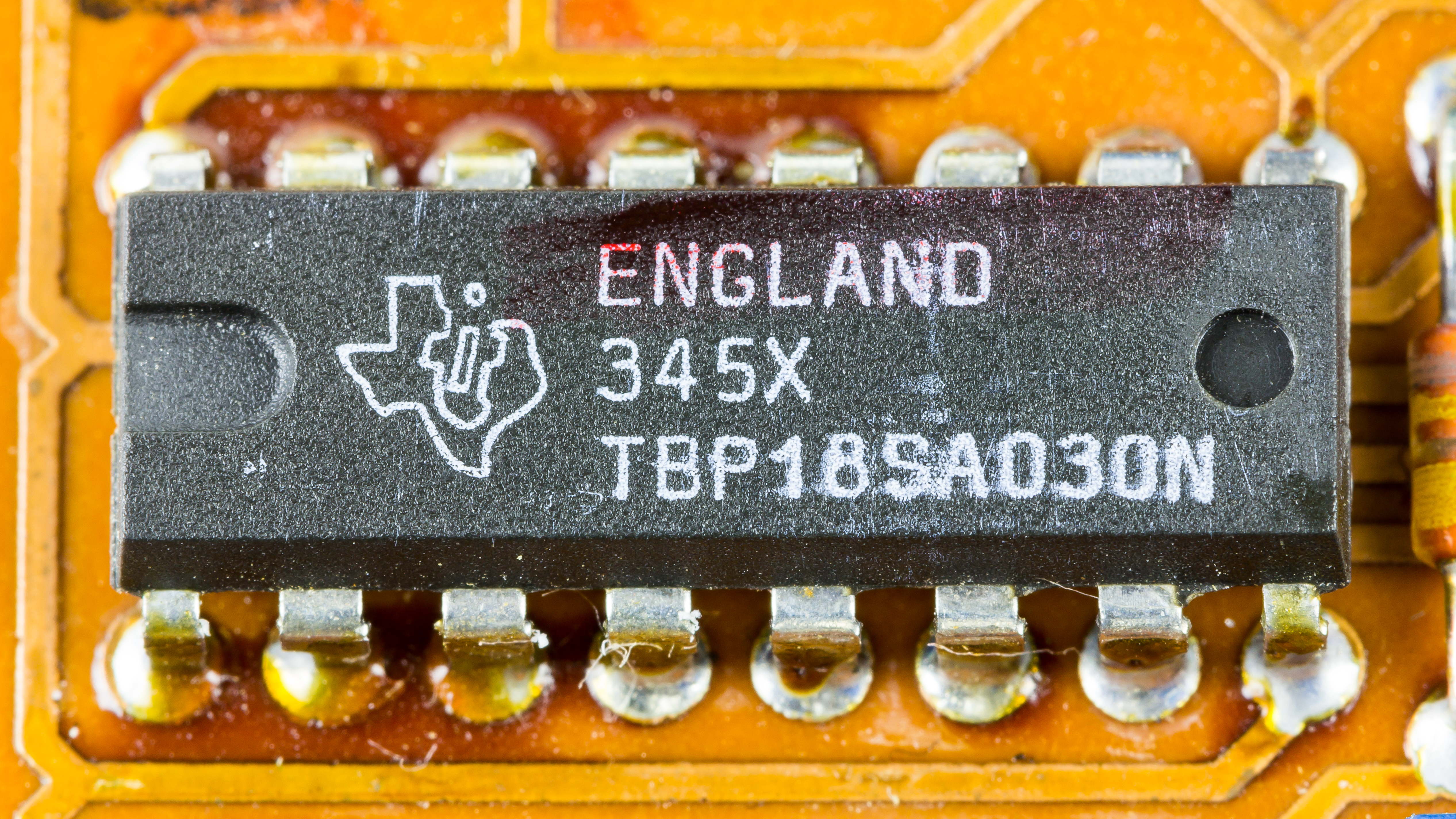 ANT Nachrichtentechnik DBT-03 - Texas Instruments TBP18SA030N - 256 bit programmable read-only memory (PROM)